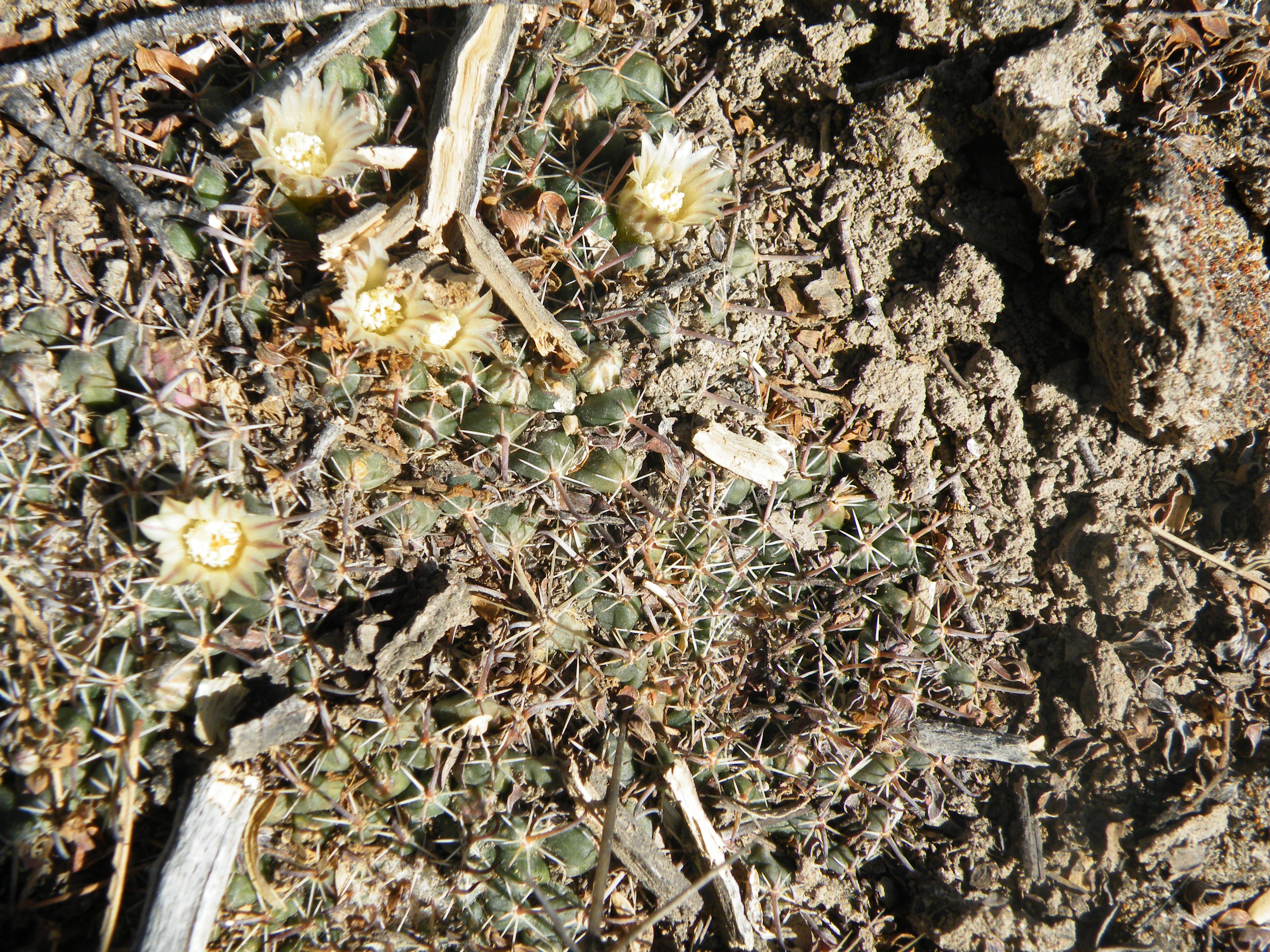 Turn off towards Cerritos from the old highway, SLP